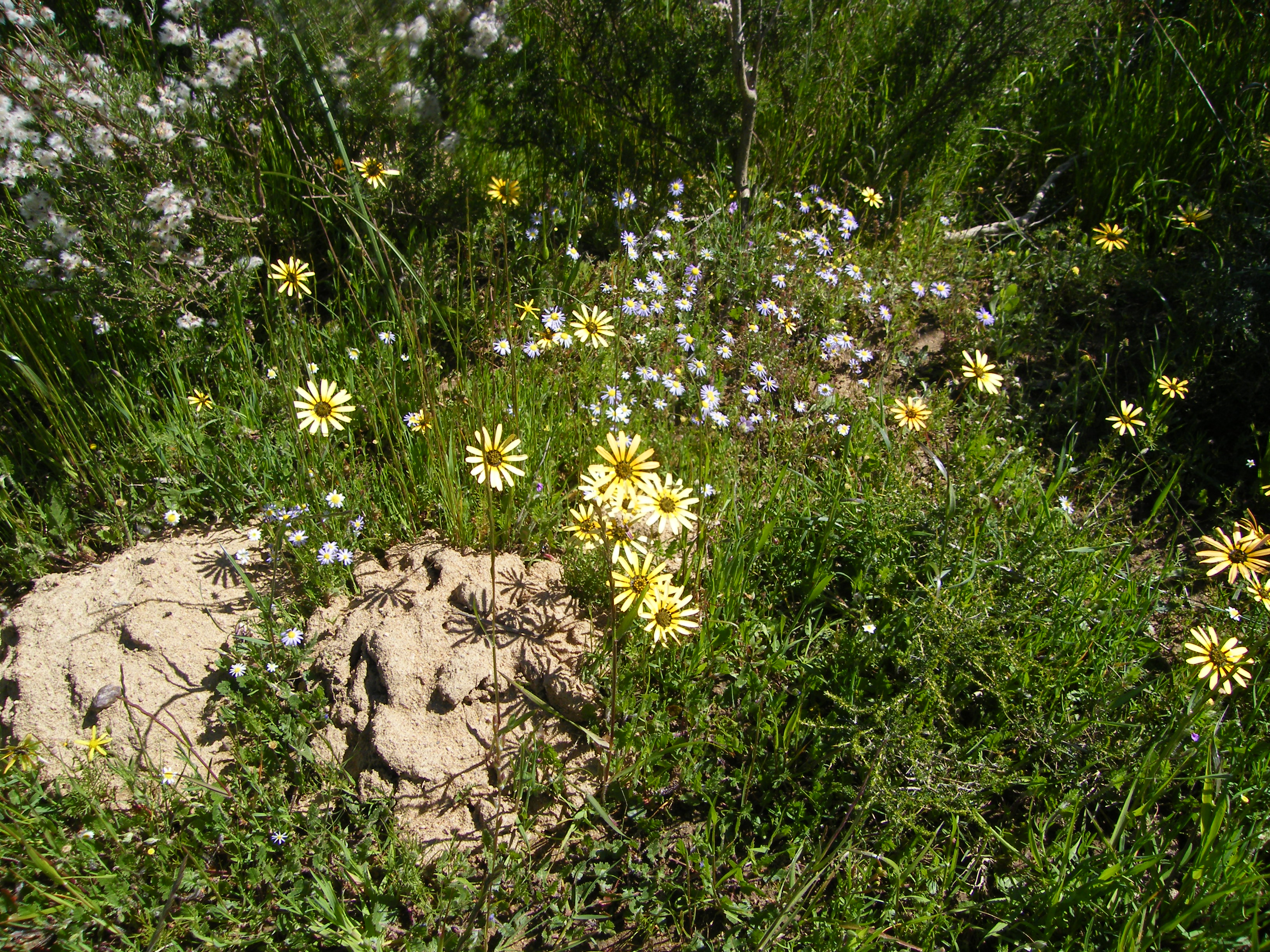 Common name: Magriet